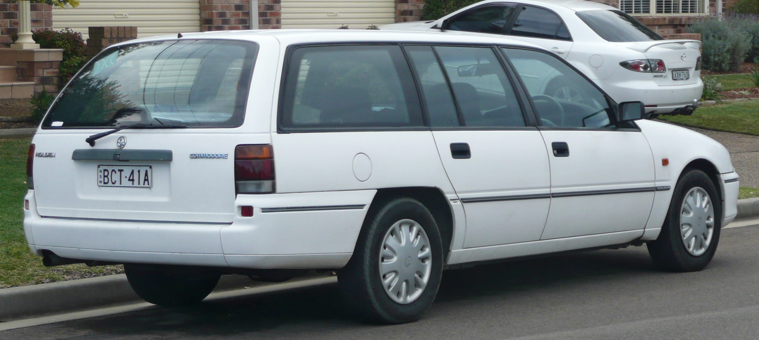 1995 Holden Commodore (VS) Executive station wagon. Photographed in Cronulla, New South Wales, Australia.